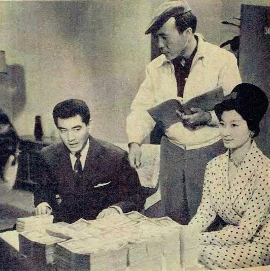 The filming site of the movie "Kuukou no Majo"(1959).The people in front are from right to left, Nahoko Kubo, Director Kiyoshi Saeki, and Ken Takakura.